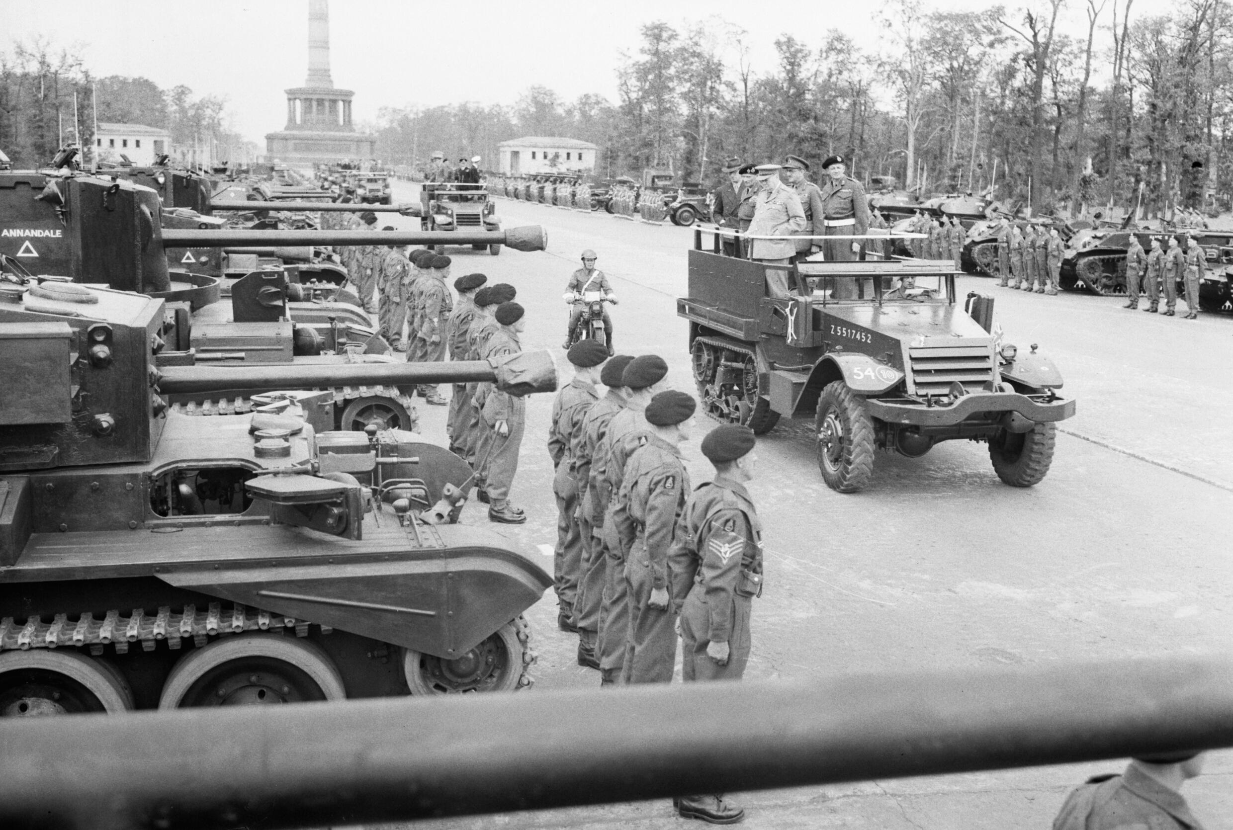 Winston Churchill, accompanied by Field Marshal Sir Bernard Montgomery and Field Marshal Sir Alan Brooke, inspects tanks of 7th Armoured Division in Berlin, 21 July 1945. Prime Minister Winston Churchill, accompanied by Field Marshal Sir Bernard Montgomery and Field Marshal Sir Alan Brooke, inspects tanks of the "Desert Rats" from a half-track vehicle which moved slowly along the long line of troops and armour, during the British Victory parade in Berlin, 21 July 1945.